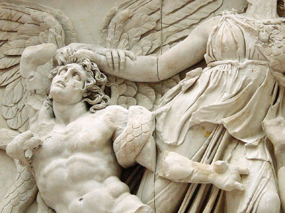 Detail of the frieze of the altar to Athena. Fotografía realizada con cámara digital por Nicolás Pérez en junio de 2004, museo de Pérgamo en Berlín.